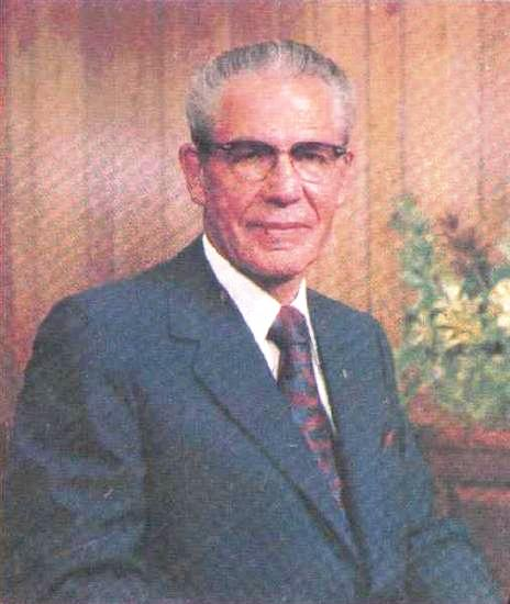 Nathan Eldon Tanner, a member of the Quorum of the Twelve Apostles of The Church of Jesus Christ of Latter-day Saints.